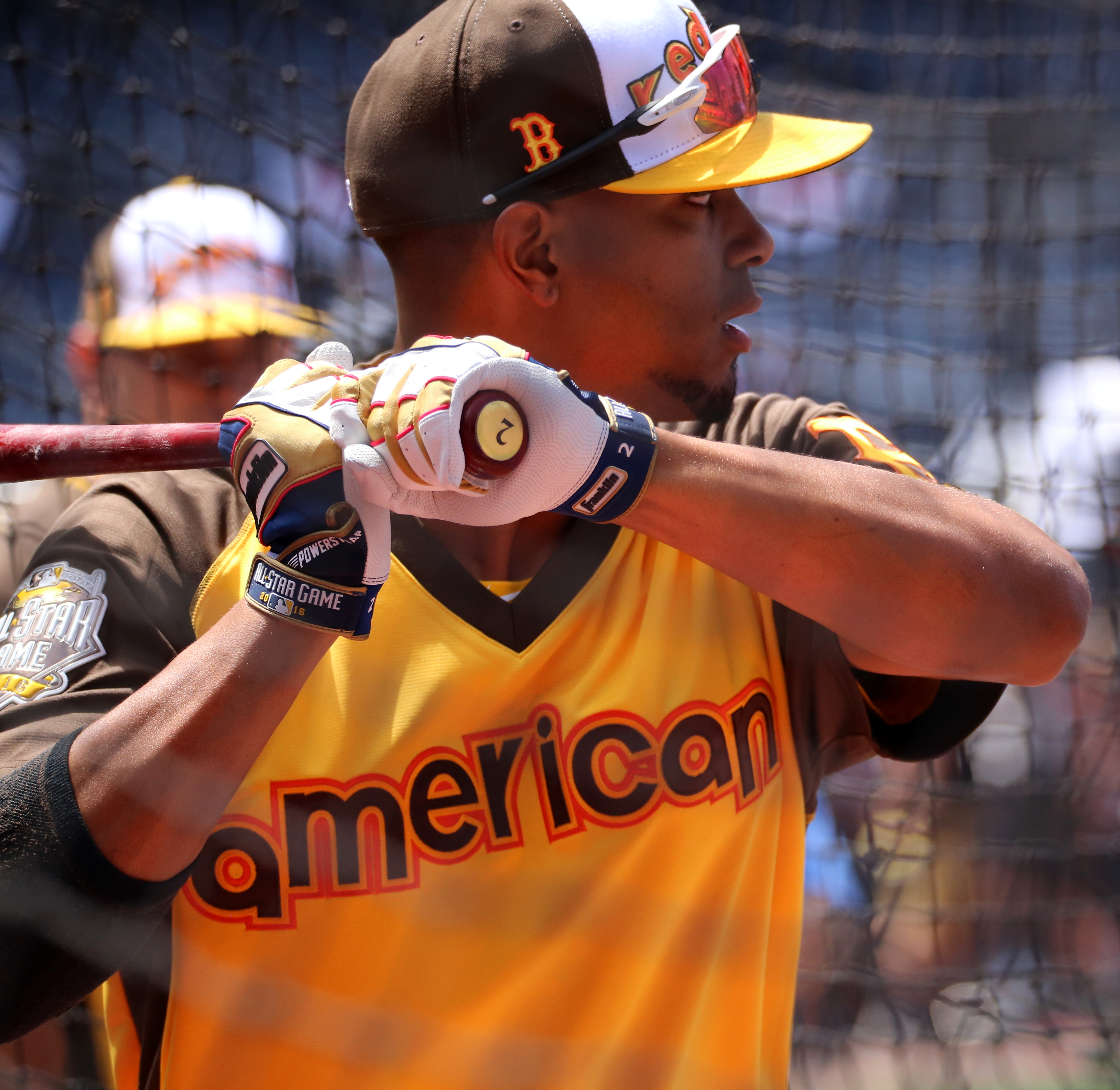 Red Sox shortstop Xander Bogaerts takes batting practice on Gatorade All-Star Workout Day.